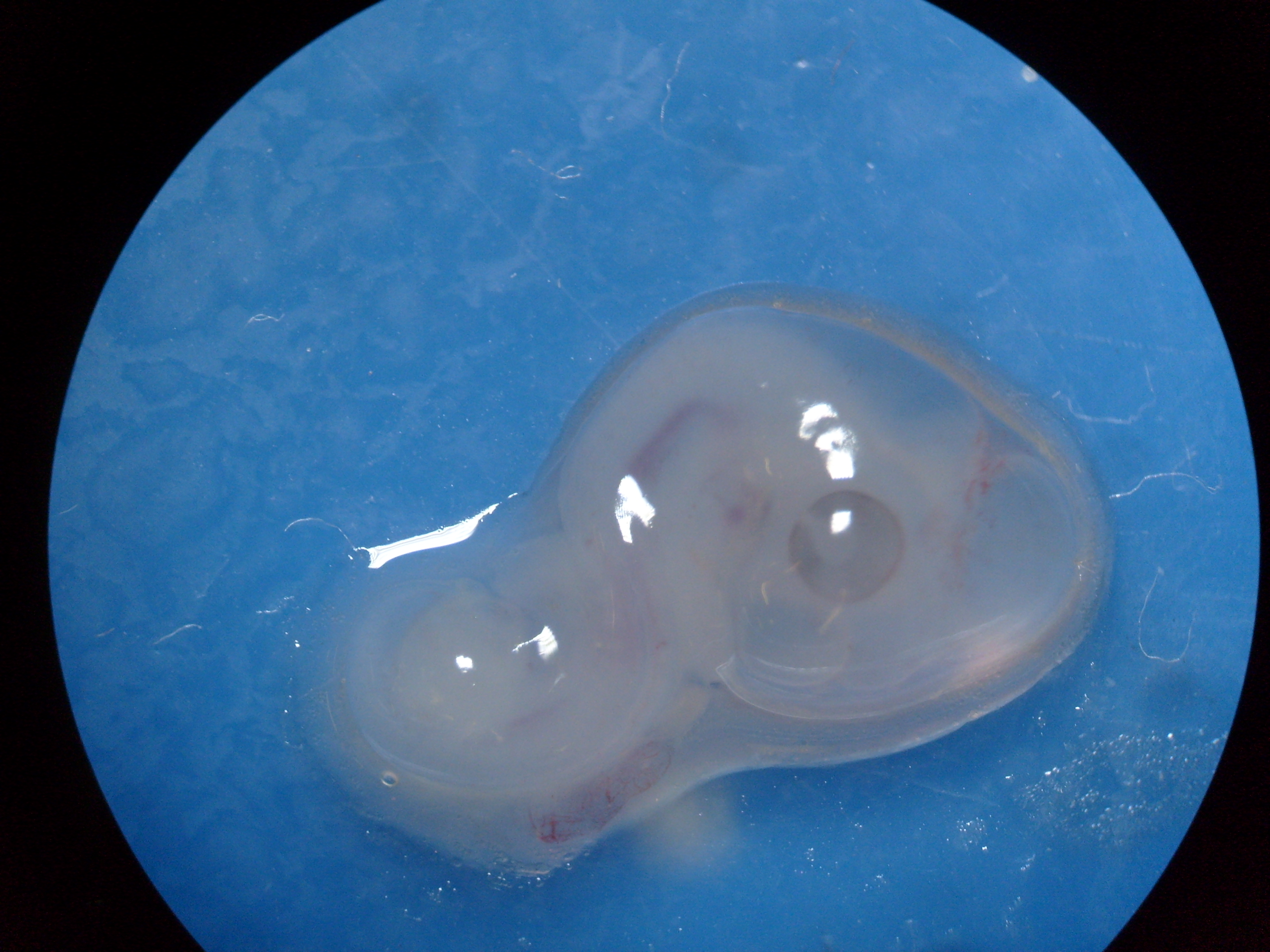 Chicken embryo, 4 days old, stereomicroscope